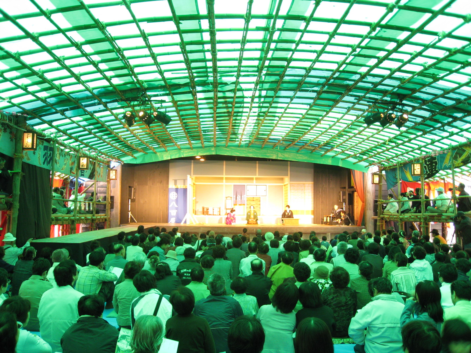 Stage at Akasaka (赤坂の舞台 Akasaka no Butai), located at Akasaka, Toyokawa, Aichi, Japan